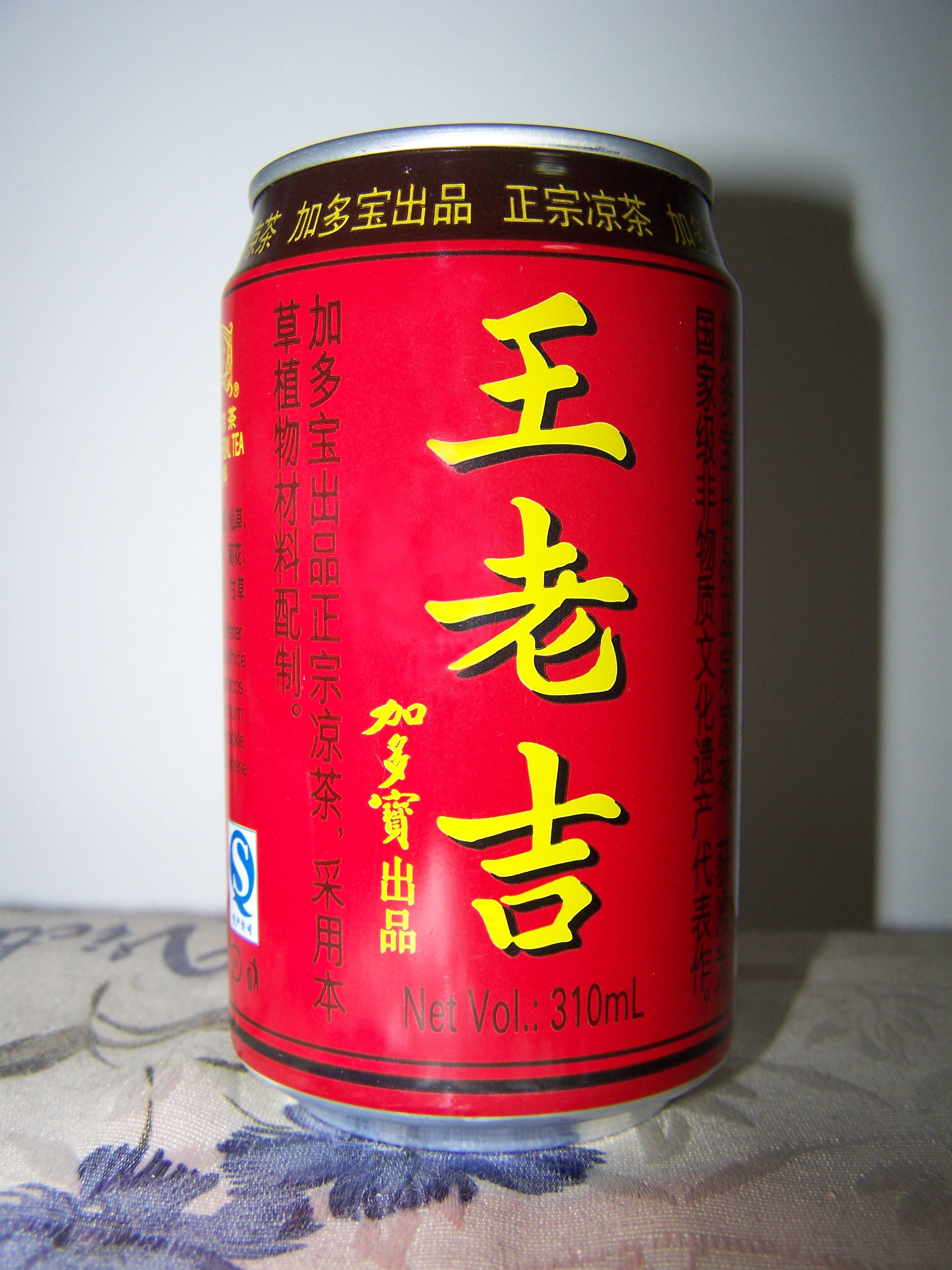 JDB herbal drink. See also: Wong Lo Kat